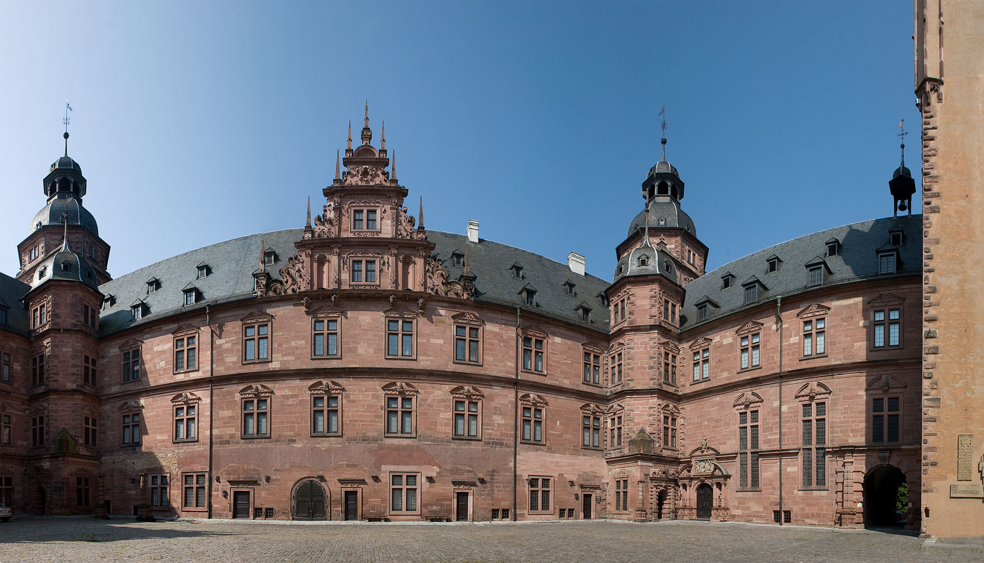 Schloss Johannisburg is a castle in Aschaffenburg, Germany, that was erected between 1605 and 1614 by Georg Ridinger. Until 1803, it was the second residence of the prince bishop of Mainz. It is constructed of red sandstone, the typical building material of the area around Aschaffenburg.